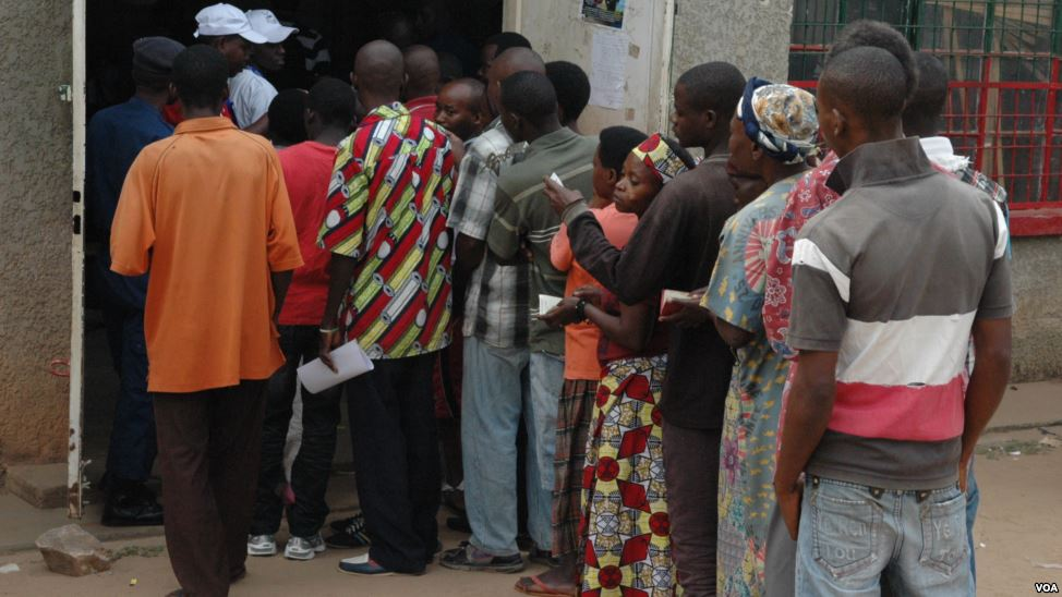 People line up to vote in Bujumbura, Burundi, June 29, 2015 (during the). (Edward Rwema/VOA News)